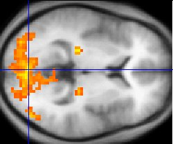 Sample fMRI data This example of fMRI data shows regions of activation including primary visual cortex (V1, BA17), extrastriate visual cortex and lateral geniculate body in a comparison between a task involving a complex moving visual stimulus and rest condition (viewing a black screen). The activations (yellow-red) are shown (as is typical) against a background based on the average structural images from the subjects in the experiment.